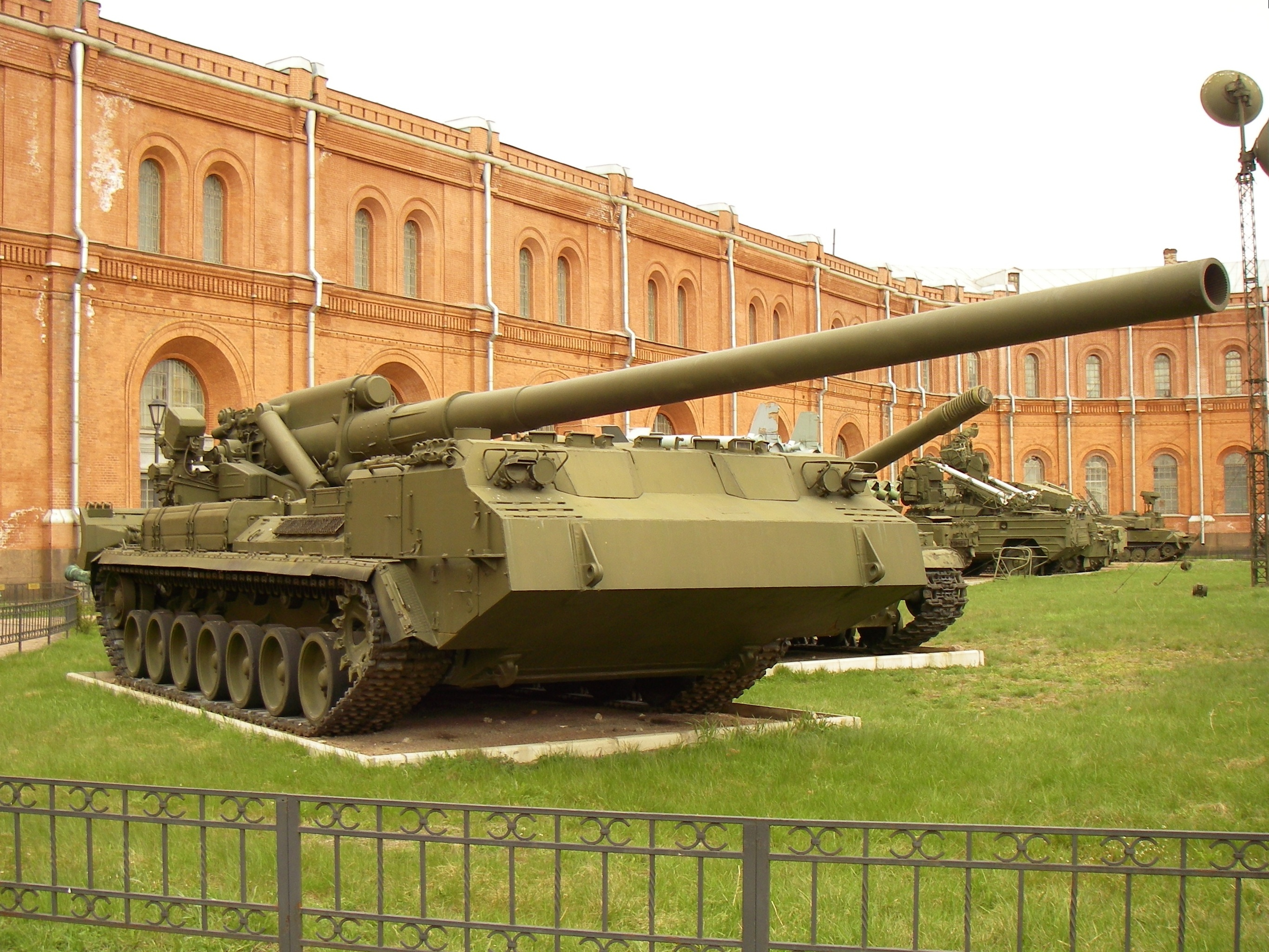 203-mm self-propelled gun 2S7 «Pion» in Saint-Petersburg Artillery museum